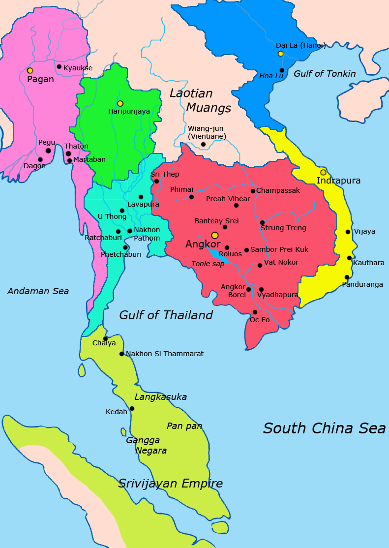 Map of Mainland Southeast Asia circa 1000 - 1100 CE, showing Khmer Empire in red, Lavo kingdom/Dvaravati in light blue, Haripunjaya in green, Champa in yellow, Dai Viet in blue, Kingdom of Pagan in pink, Srivijaya in lime and surrounding states. sources Atlas of world history, Patrick Karl O'brien Societies, Networks, and Transitions: A Global History, Volume B. Craig A.Lockard File:DvaravatiMapThailand.png